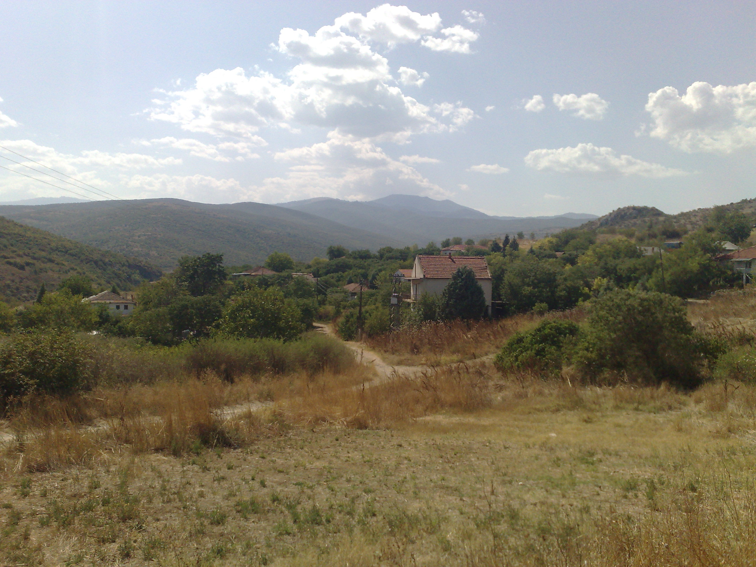 village of Sopot, near Veles, Macedonia